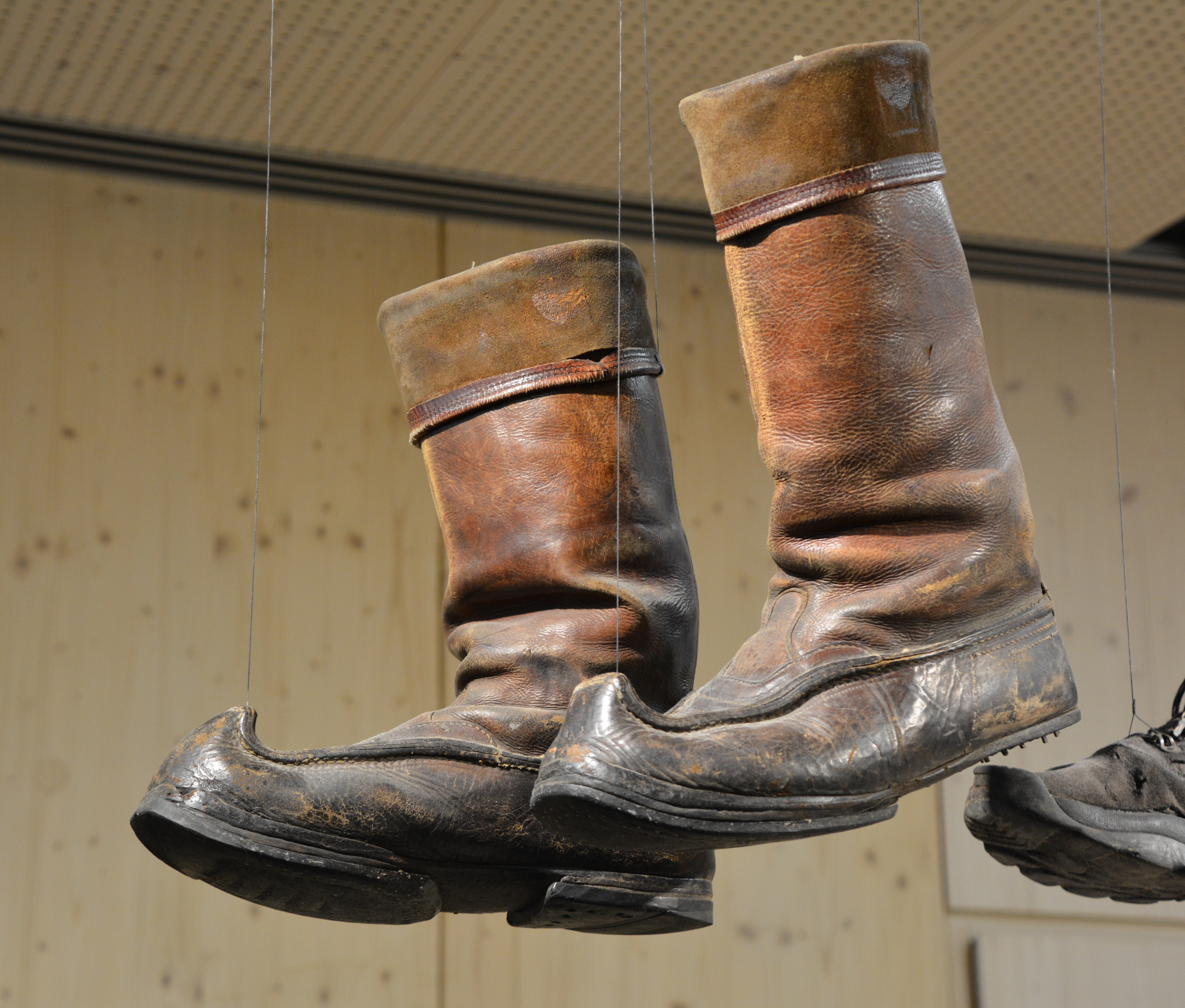 Skiing boots (Swedish: Näbbskor)